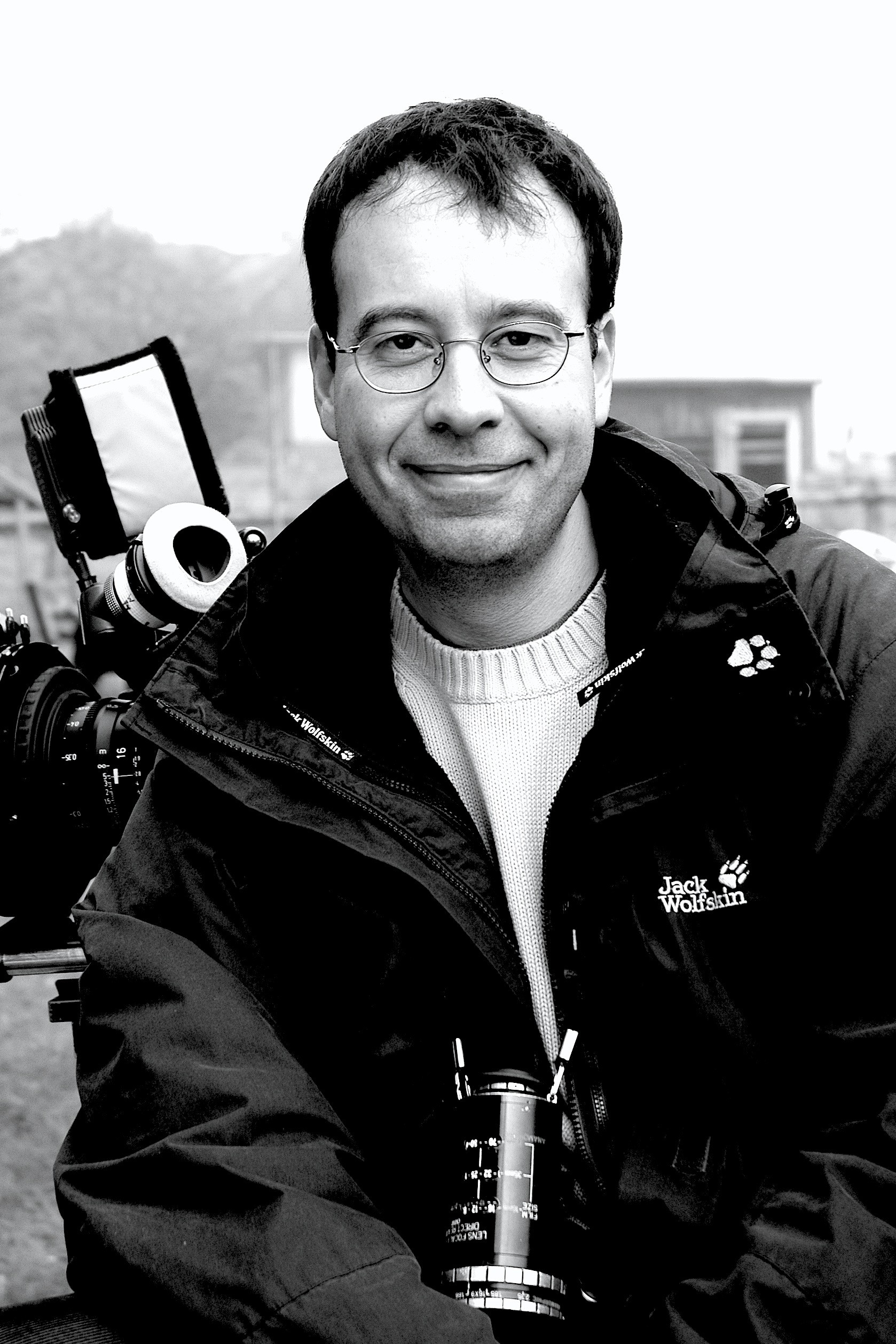 Portrait of German-Portuguese film director and screenwriter Miguel Alexandre, provided by his agency on request.